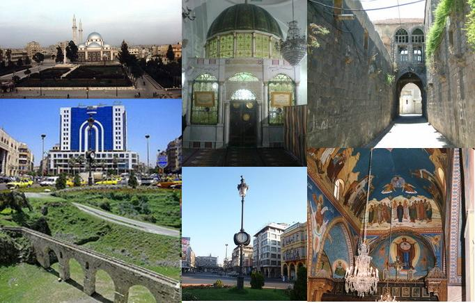 some of the sights in the city of homs, Syria.